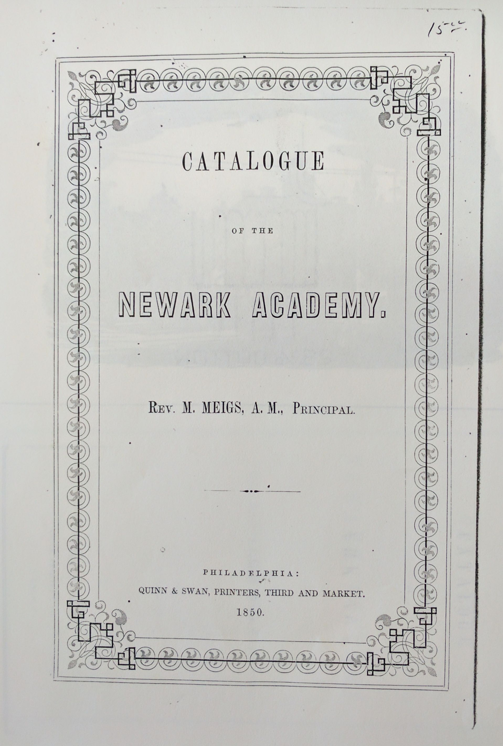 A photograph of the cover of the Newark Academy Catalogue from 1850 identifying the Rev. M. Meigs as Principal